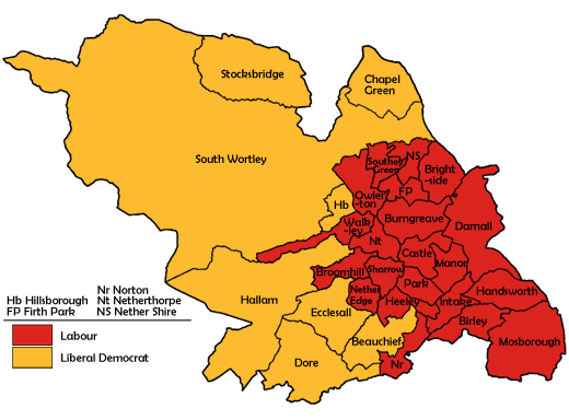 Ward map of Sheffield Council with political colouring for the 1995 election.